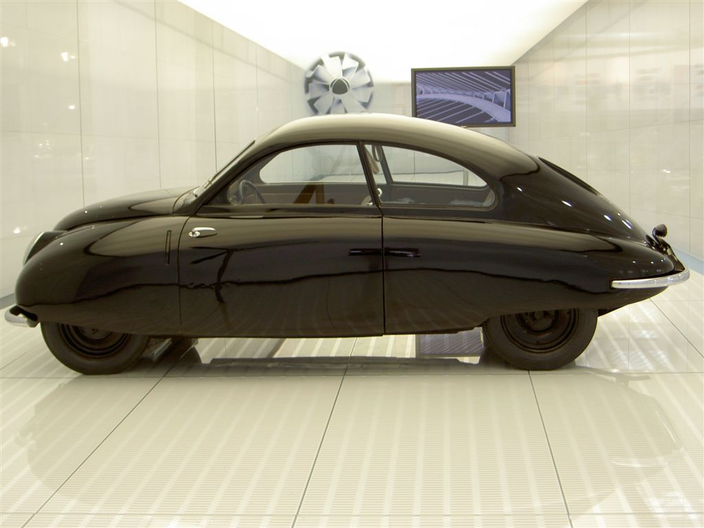 The first SAAB automobile. Known as the SAAB 92001 or Ursaab (Swedish for original or first saab). Picture taken by me, Þórir Már Jónsson, in June 2005 at the SAAB museum in Trollhättan.